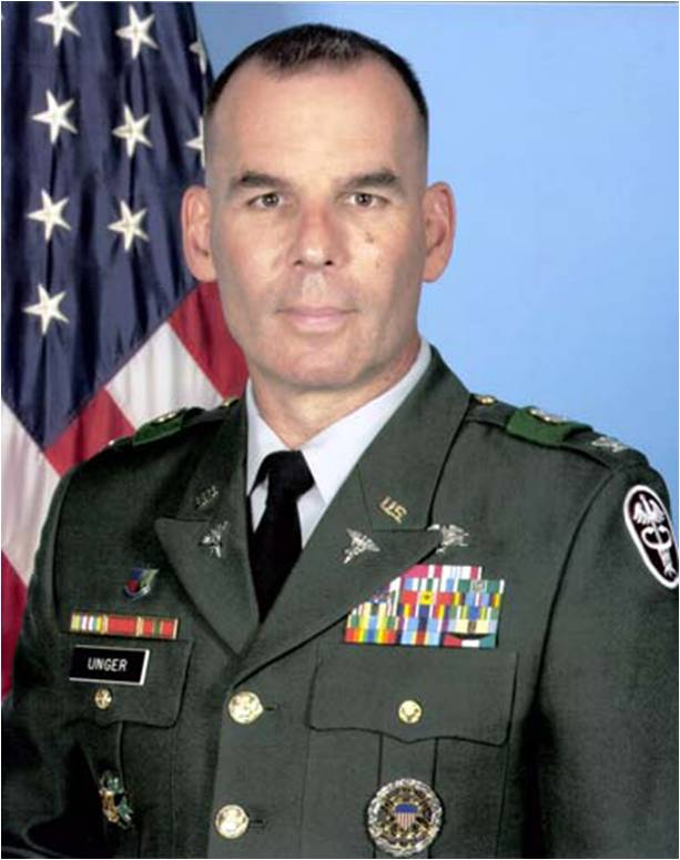 Picture of USAMMA Commander, COL Jeffrey Unger